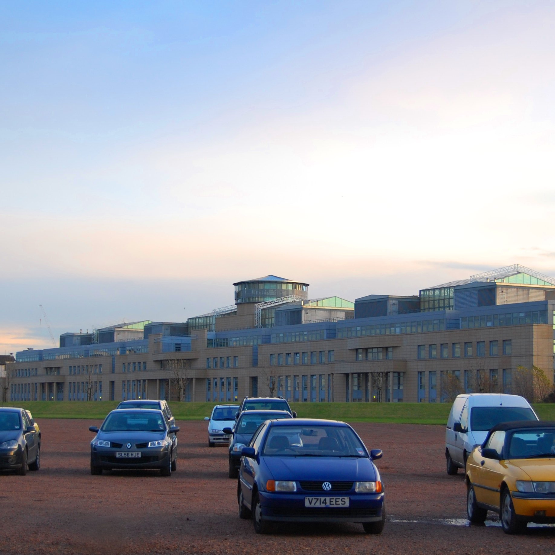 View of the Scottish Government buildings in Leith. Cropped and brightened.